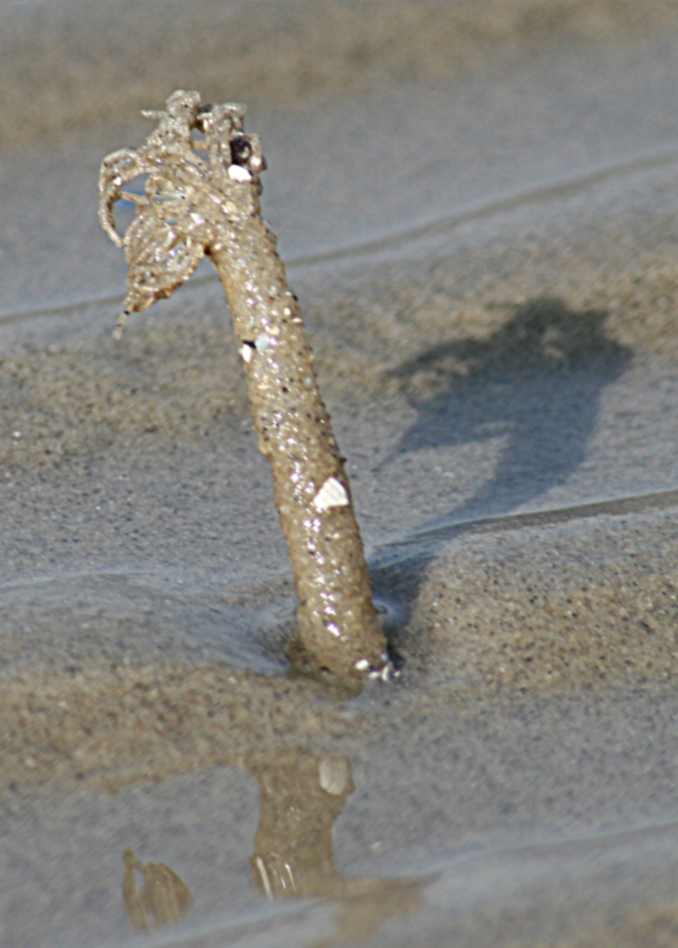 Tube of Lanice Conchilega on the tidal flats of the dutch waddensea .